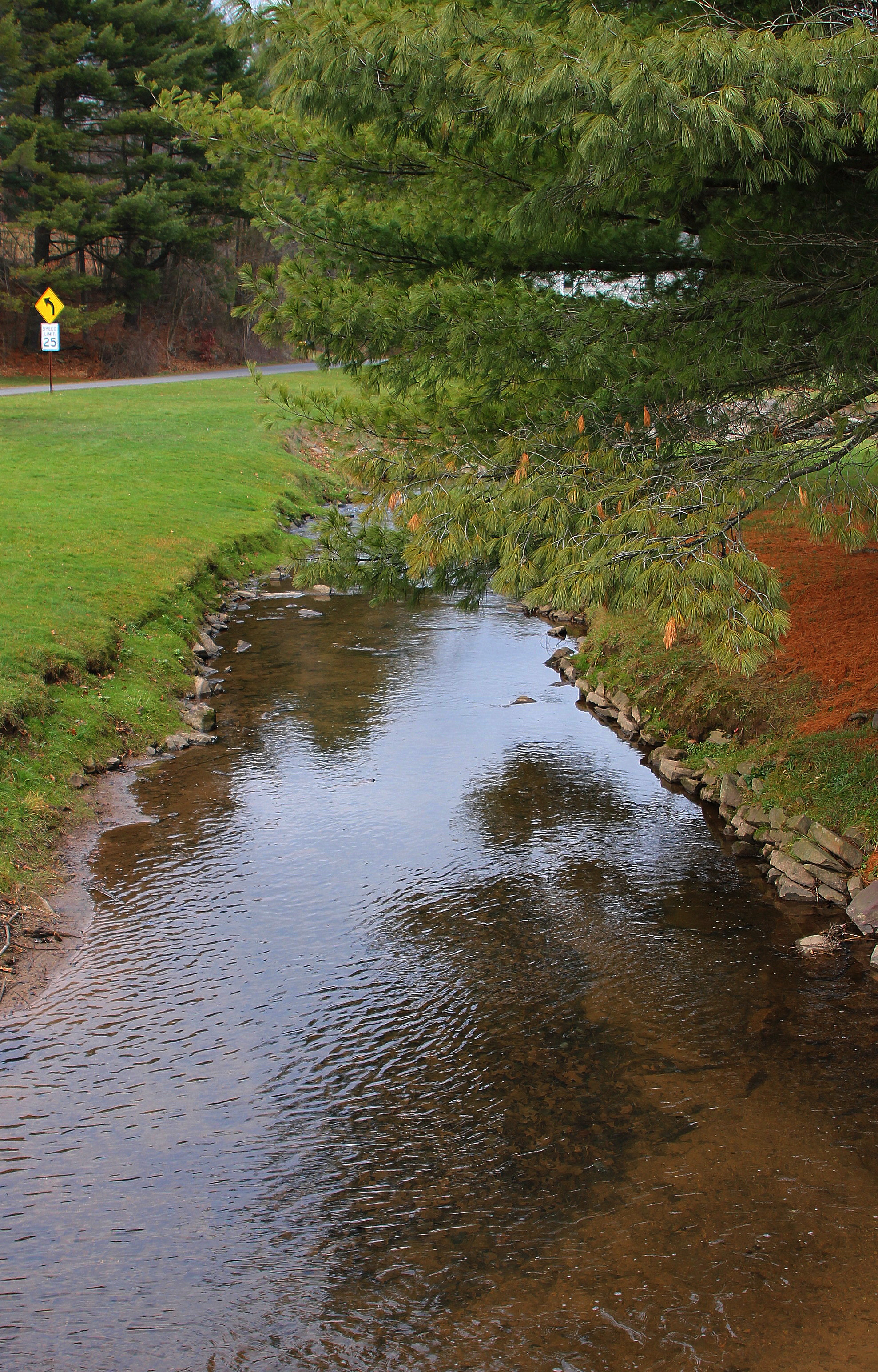 Crab Run, a small tributary of Mahanoy Creek looking downstream in its lower reaches, near Taylorville.